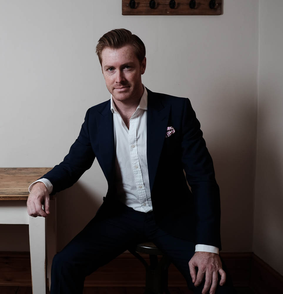 Portrait of English countertenor Tim Mead, sitting next to a table.